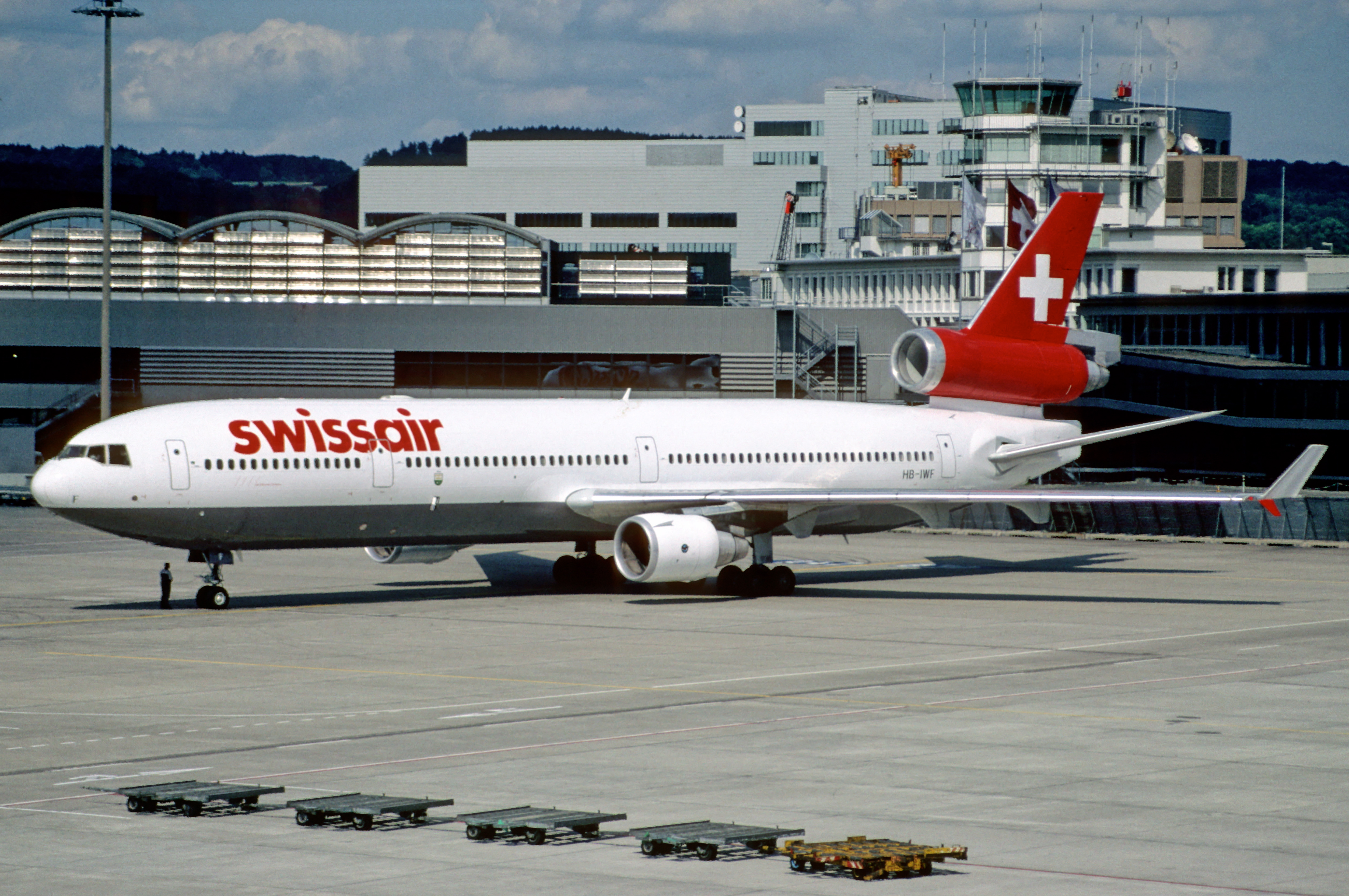 This MD-11 crashed off the coast of Nova Scotia, near Peggy's Cove, into the Atlantic Ocean on September 2, 1998, operating flight Swissair SR 111 (JFK - GVA - ZRH). 229 people died in that crash - the worst accident in Swiss aviation history. The cause was an on-board fire caused by an electrical fault. The crash caused the aircraft to disintegrate into more than 2 million pieces, and only one victim was visually identifiable. The aircraft was also carrying 15 tonnes of cargo, some of which has been lost.